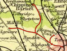 Extract from 1900 map showing route of Edgware from Finsbury Park in the south east to Edgware, High Barnet and Alexandra Palace